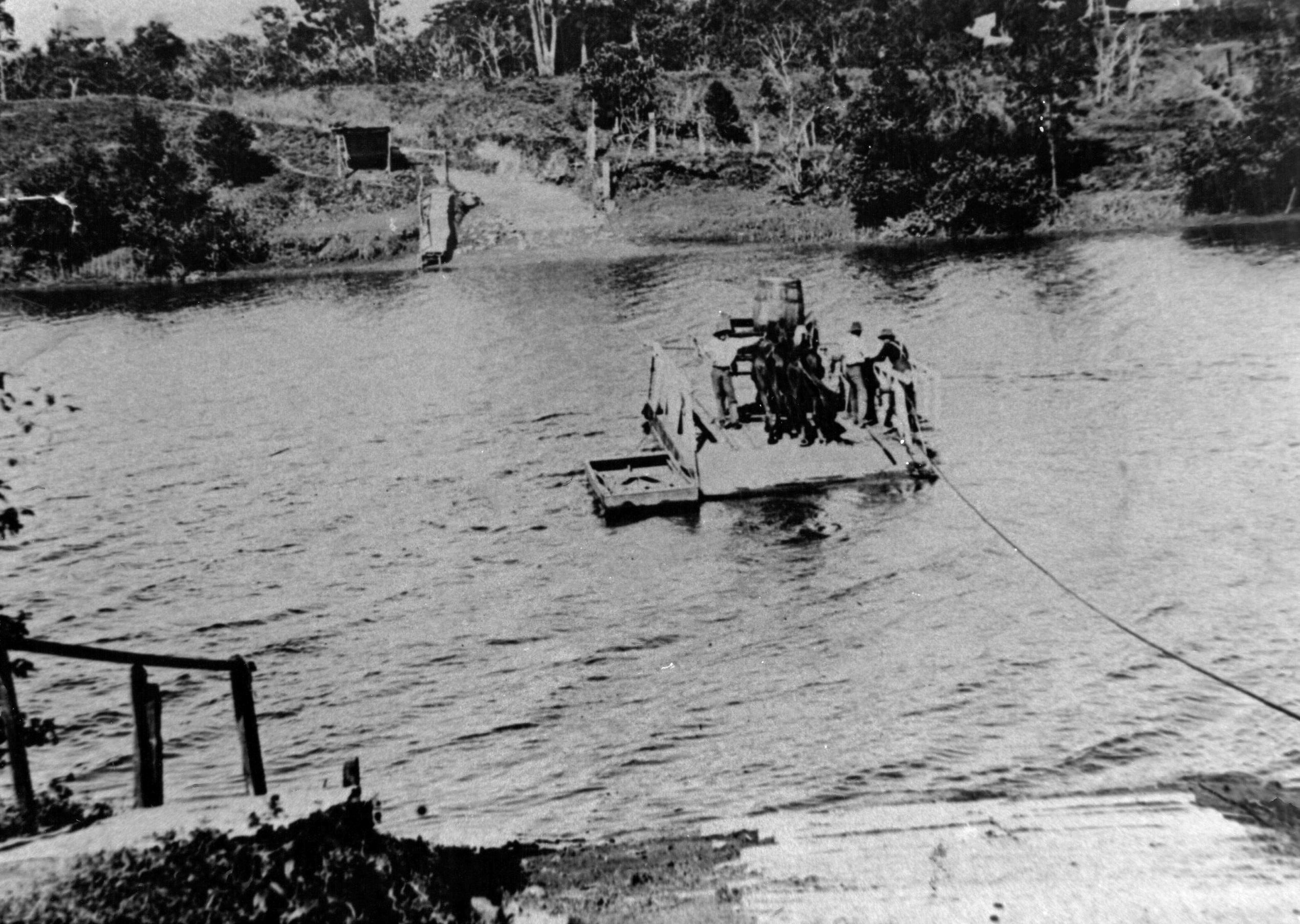 Photo courtesy Cassowary Coast Libraries (accession no 67), original donated by Jim Scullen.